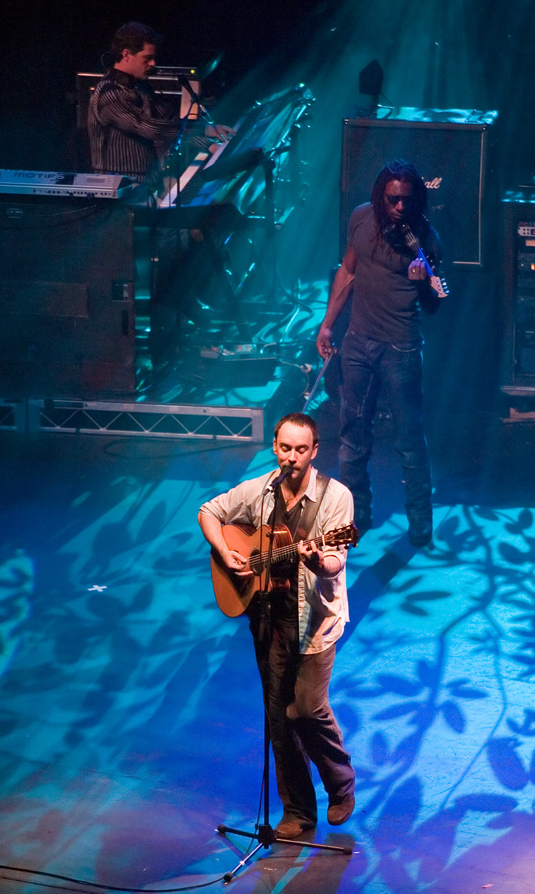 A close up of (from foreground to background) Dave Matthews, Boyd Tinsley and Butch Taylor of the Dave Matthews Band at the Palais Theatre in Melbourne during their first tour of Australia. This photo was taken on the 21 March 2005.